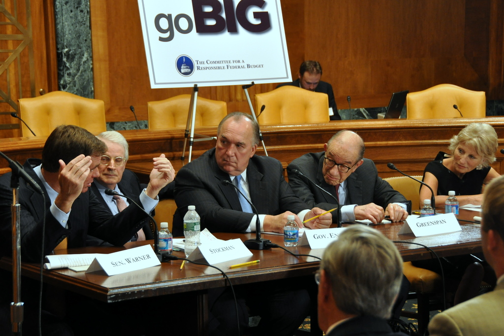 Senator Warner speaks at the Committee for Responsible Federal Budget's "Go Big" event, which brought together leaders from across the political spectrum to discuss reasons the Super Committee should push for a comprehensive, $4 trillion solution to the deficit. Senator Warner spoke on a panel that included from right, Jane Harman, President, CEO, and Director, Woodrow Wilson International Center for Scholars, Smithsonian Institution and Former Member of Congress, Alan Greenspan, Former Chair, Federal Reserve Board, Governor John Engler, President, Business Roundtable, and David Stockman, Former Member of Congress and Former Director, Office of Management and Budget.